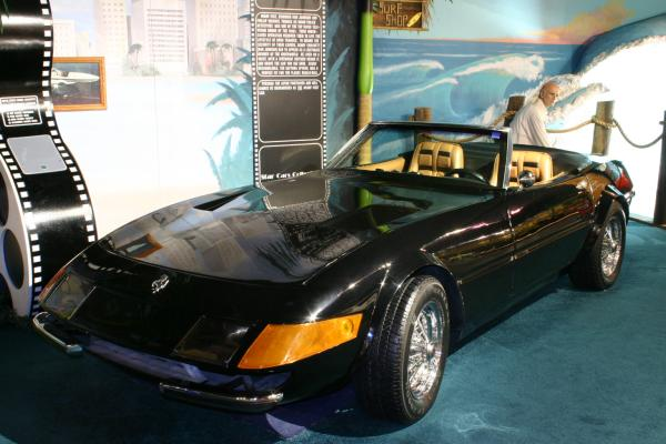 Replica Ferrari Daytona Spyder (actually a modified Chevrolet Corvette) photographed by DougW of at the StarCars Museum in Gatlinburg, TN. This is one of the cars driven by Don Johnson in the hit TV series, Miami Vice.